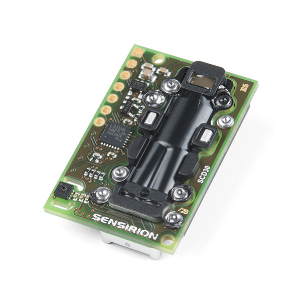 The SCD30 from Sensirion is a high quality Nondispersive Infrared (NDIR) based CO₂ sensor capable of detecting 400 to 10000ppm with an accuracy of ±(30ppm+3%). In order to improve accuracy the SCD30 has temperature and humidity sensing built-in, as well as commands to set the current altitude. For additional accuracy the SCD30 also accepts ambient pressure readings! Sold for $60 by SparkFun in 2019.